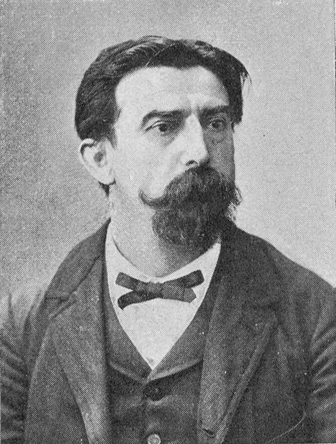 Jean Allemane, French typographer, trade union leader and politician.